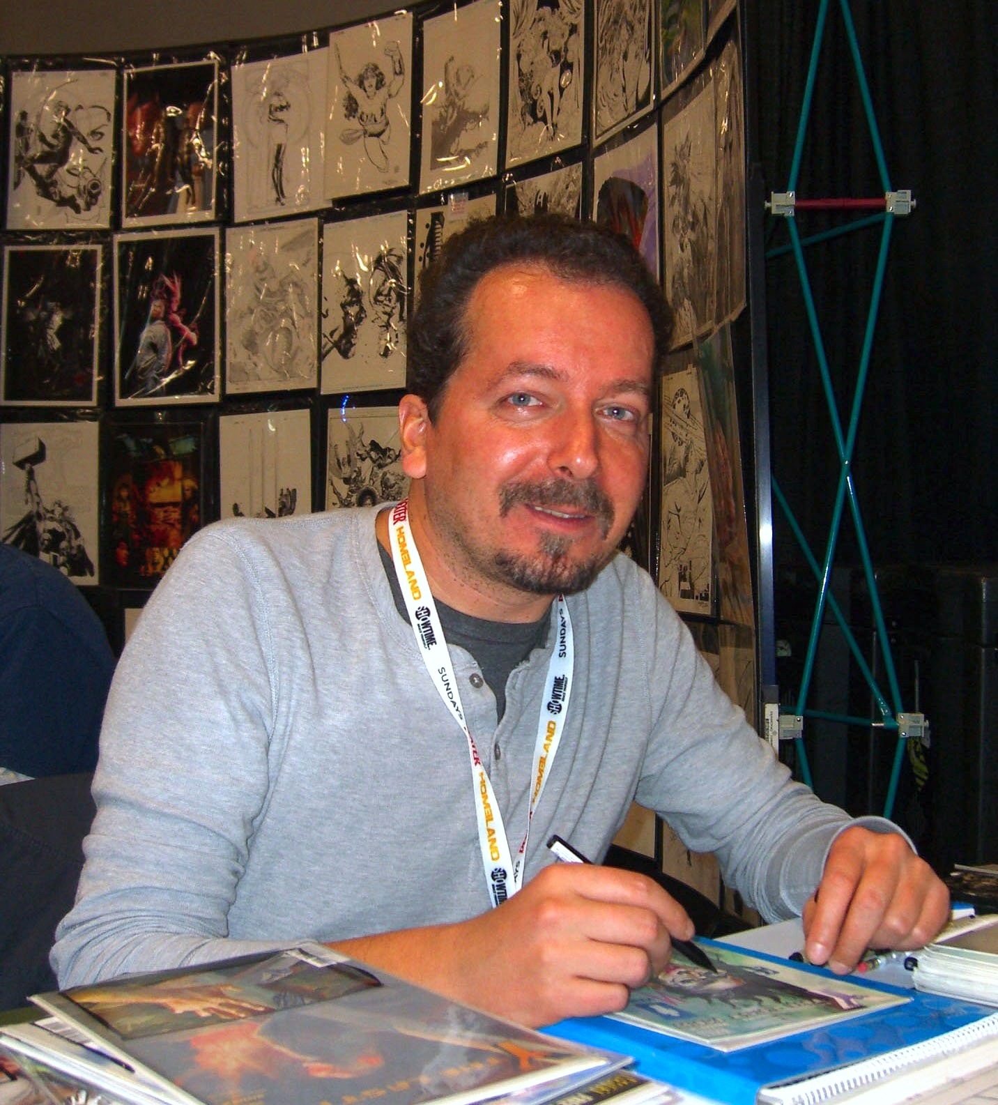 Comics creator Goran Sudžuka on Day 2 of the 2012 New York Comic Con, Friday October 12, 2012 at the Jacob K. Javits Convention Center in Manhattan. This photo was created by Luigi Novi. It is not in the public domain, and use of this file outside of the licensing terms is a copyright violation.